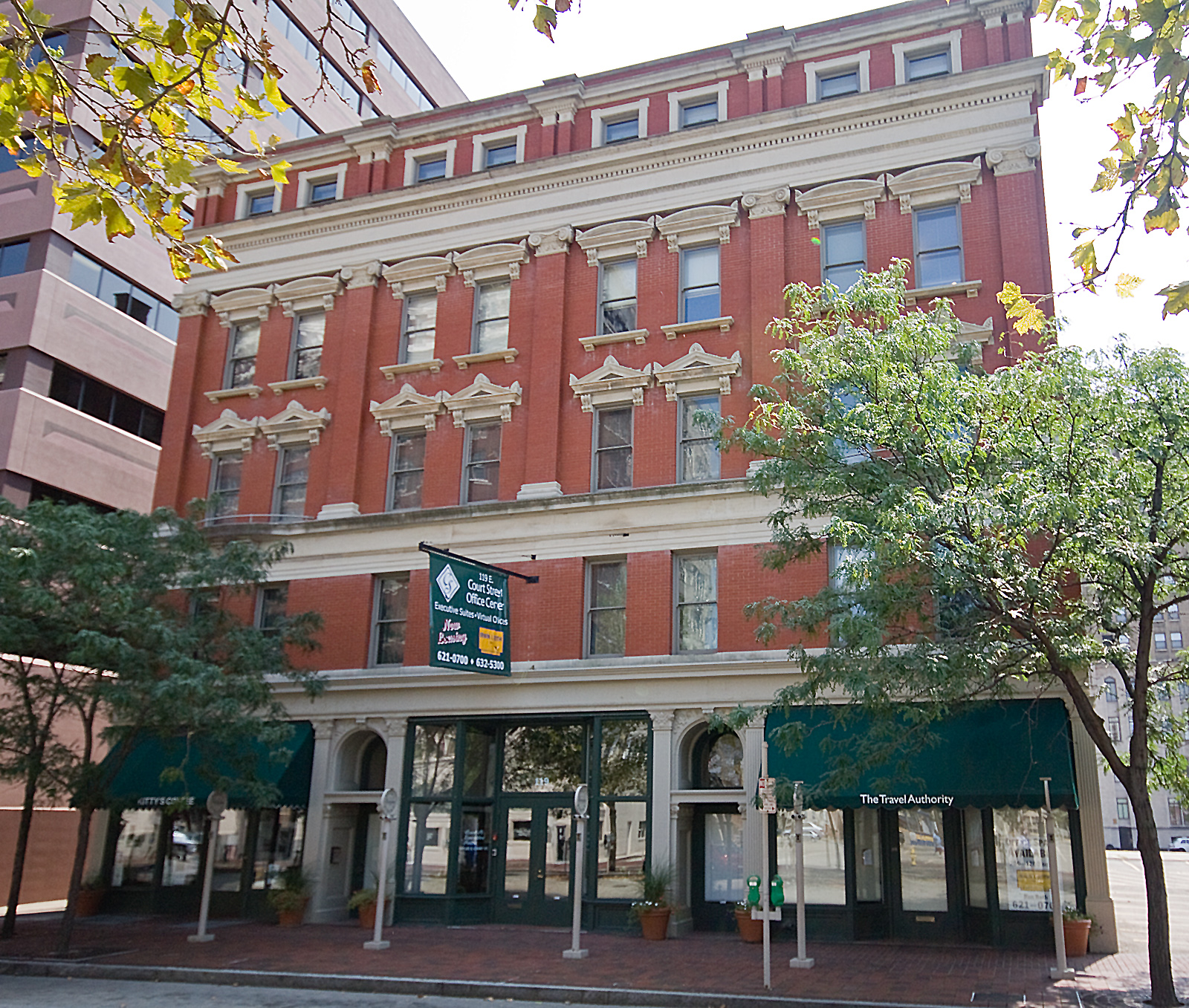 Courtland Flats in Cincinnati, OH. Photo by Greg Hume